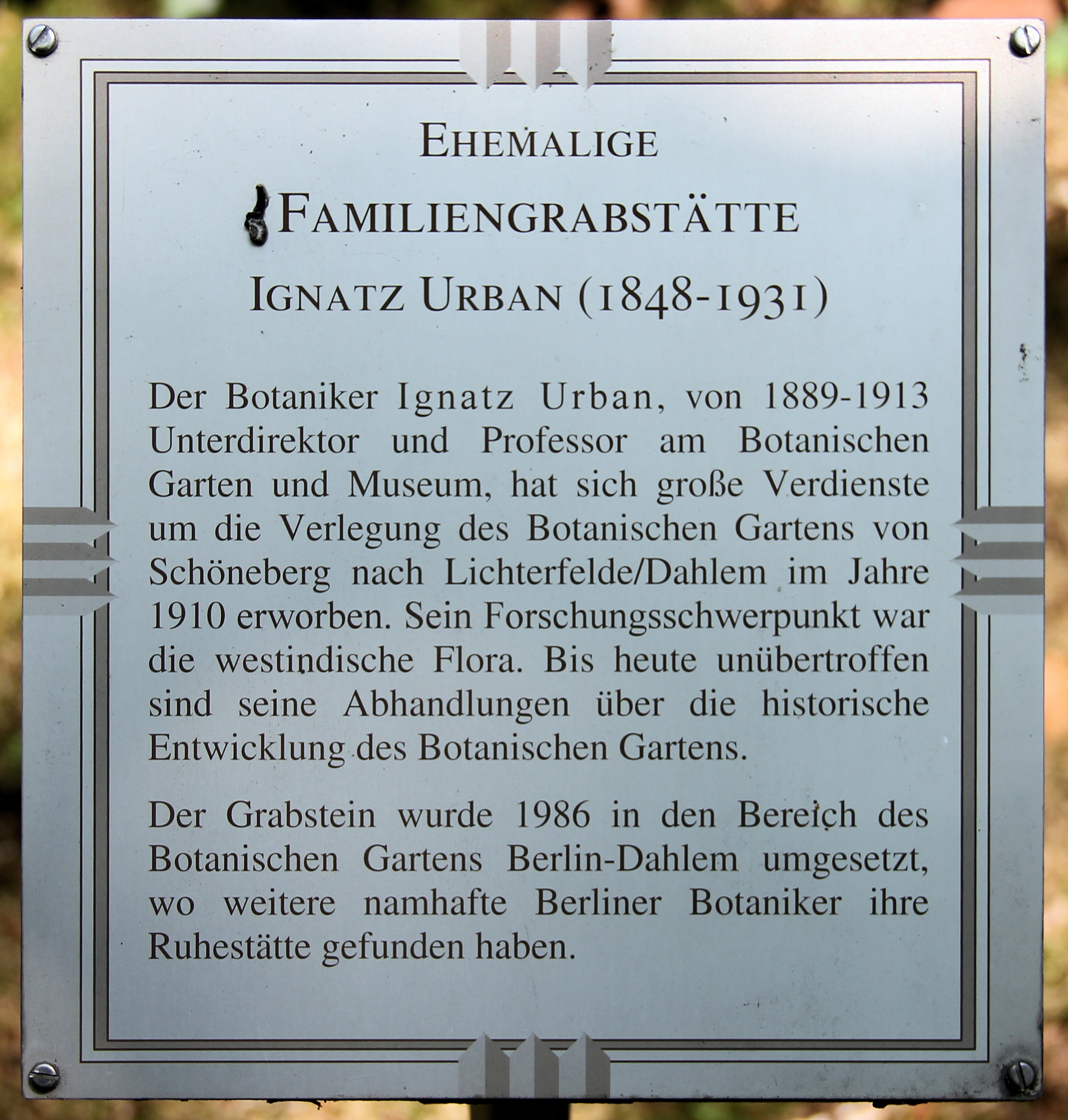 Memorial plaque, Ignatz Urban, Thuner Platz 2-4, Berlin-Lichterfelde, Germany Koordinate:52°25′24″N 13°17′45″E / 52.42333°N 13.29583°E